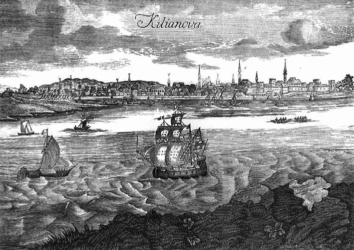 Chilia Nouă (now Kiliya, Ukraine) in the XVth century